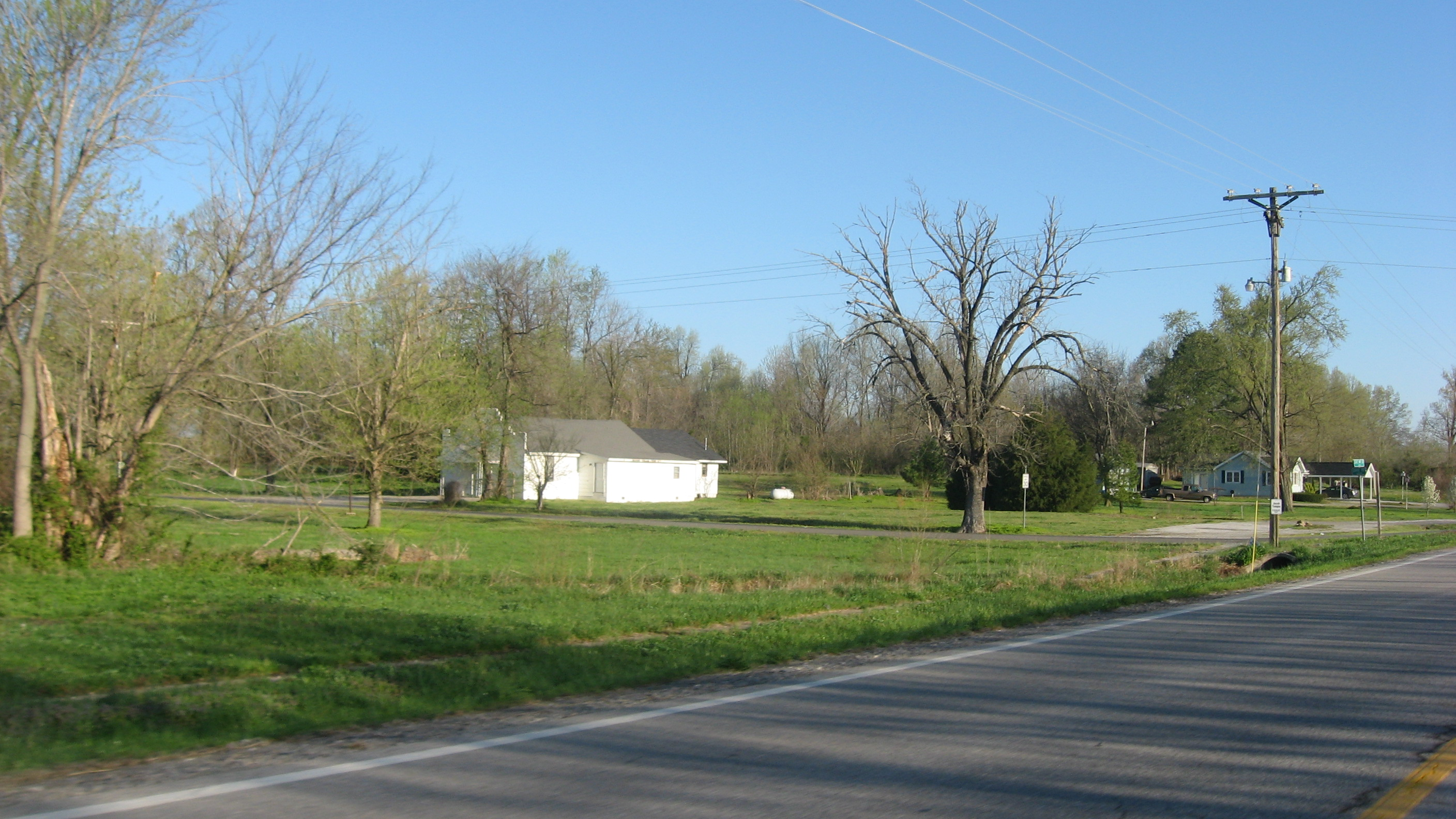 Scattered buildings on the western side of Illinois Route 127 in Sandusky, Illinois, United States.